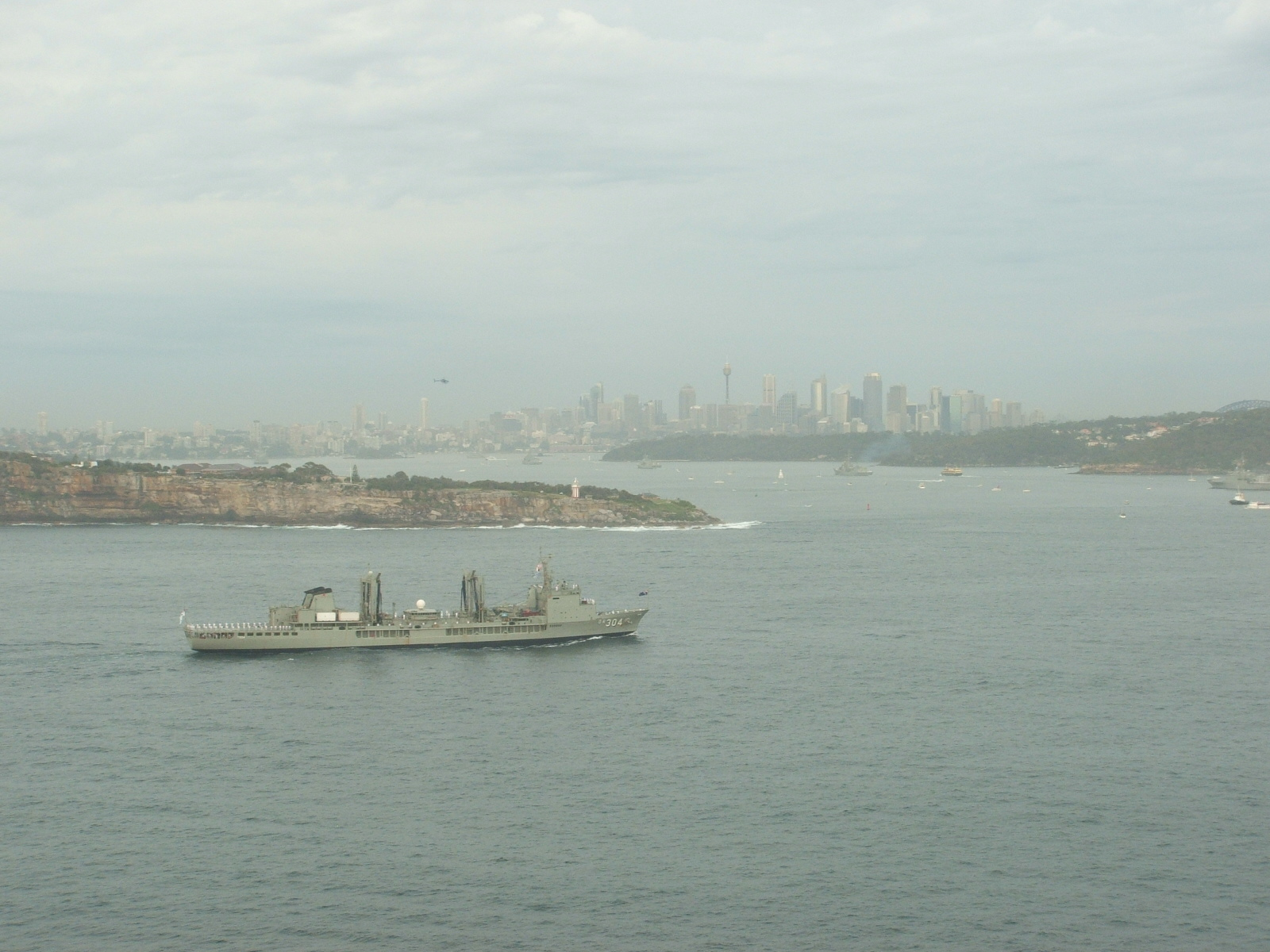 The Durance class oiler HMAS Success entering Sydney Harbour as part of a ceremonial fleet entry. Taken from North Head.